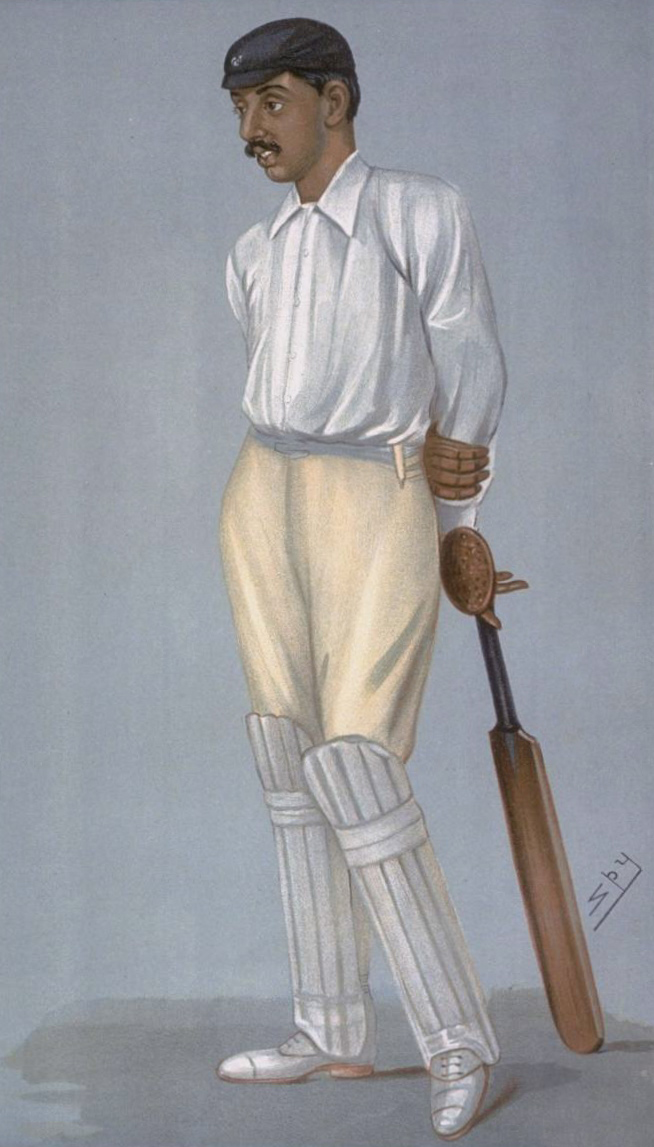 Caricature of K. S. Ranjitsinhji (1872 - 1933). Caption read "Ranji".